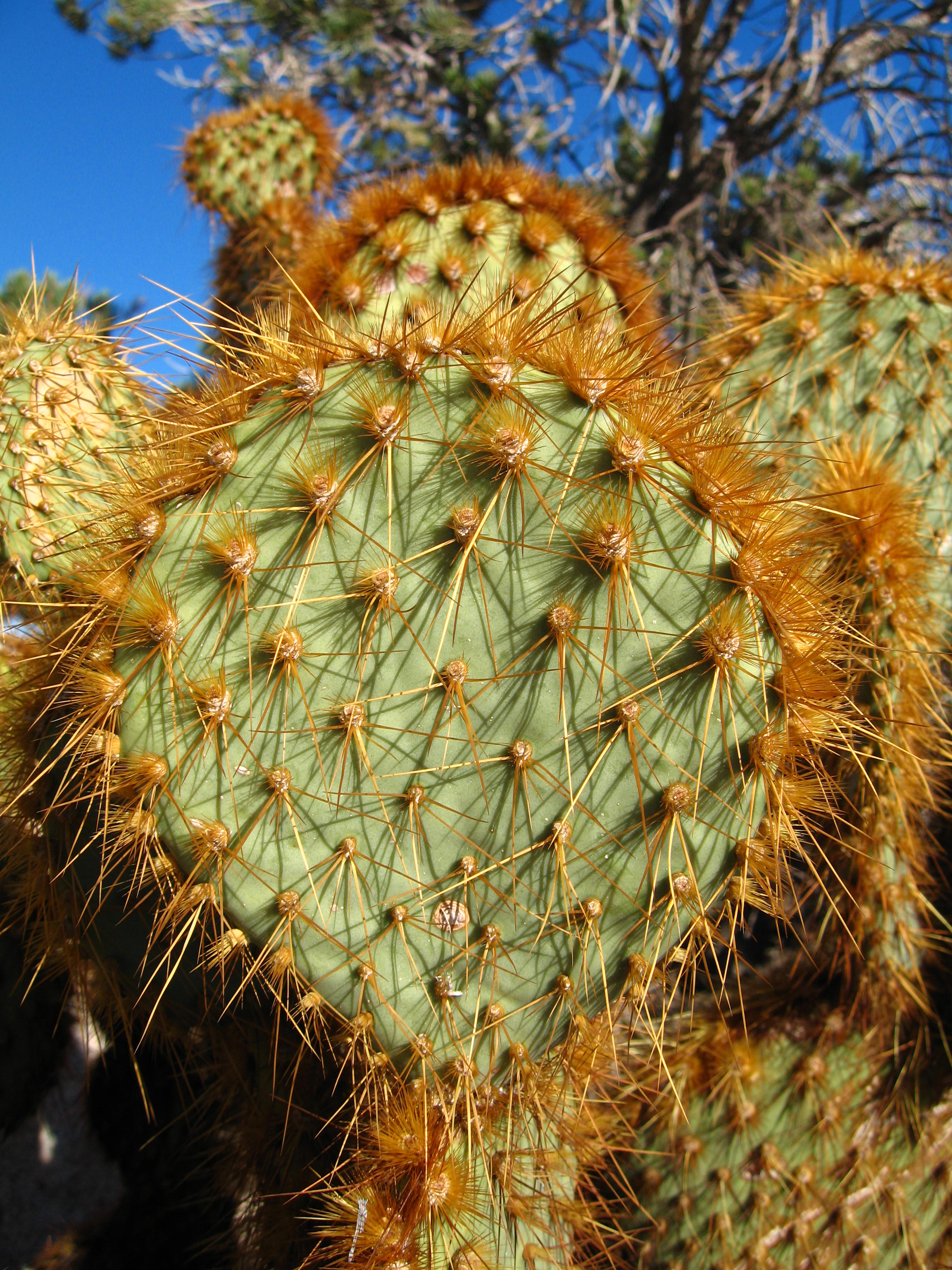 Flora of Joshua Tree National Park: Opuntia chlorotica at South Astrodome 0263